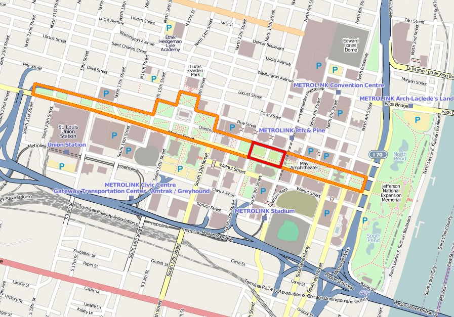 A map of the Gateway Mall, with the location of Citygarden marked in red. This map may be incomplete, and may contain errors. Don't rely solely on it for navigation.